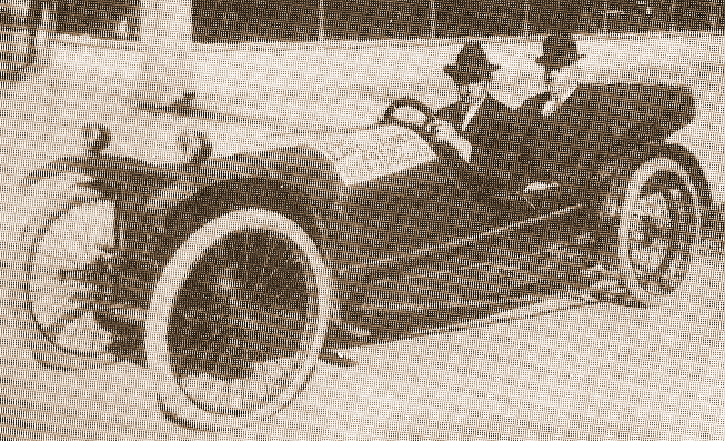 1913 Imp Cyclecar